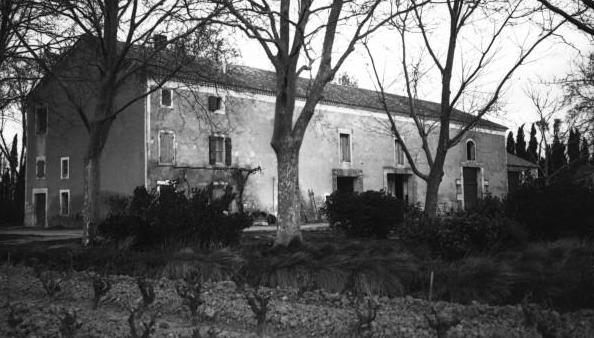 A picture of the Mas dau Jutge, Frederic Mistral's birthplace.